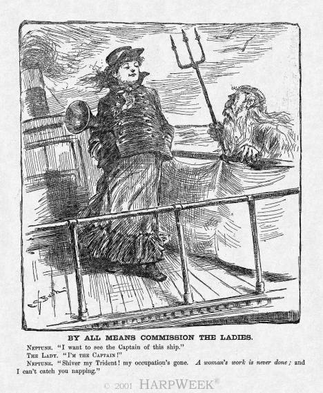 Political cartoon from Harper's Weekly promoting issuing women steamboat master licenses. Specifically Mary Millicent Miller steamboat master license application.